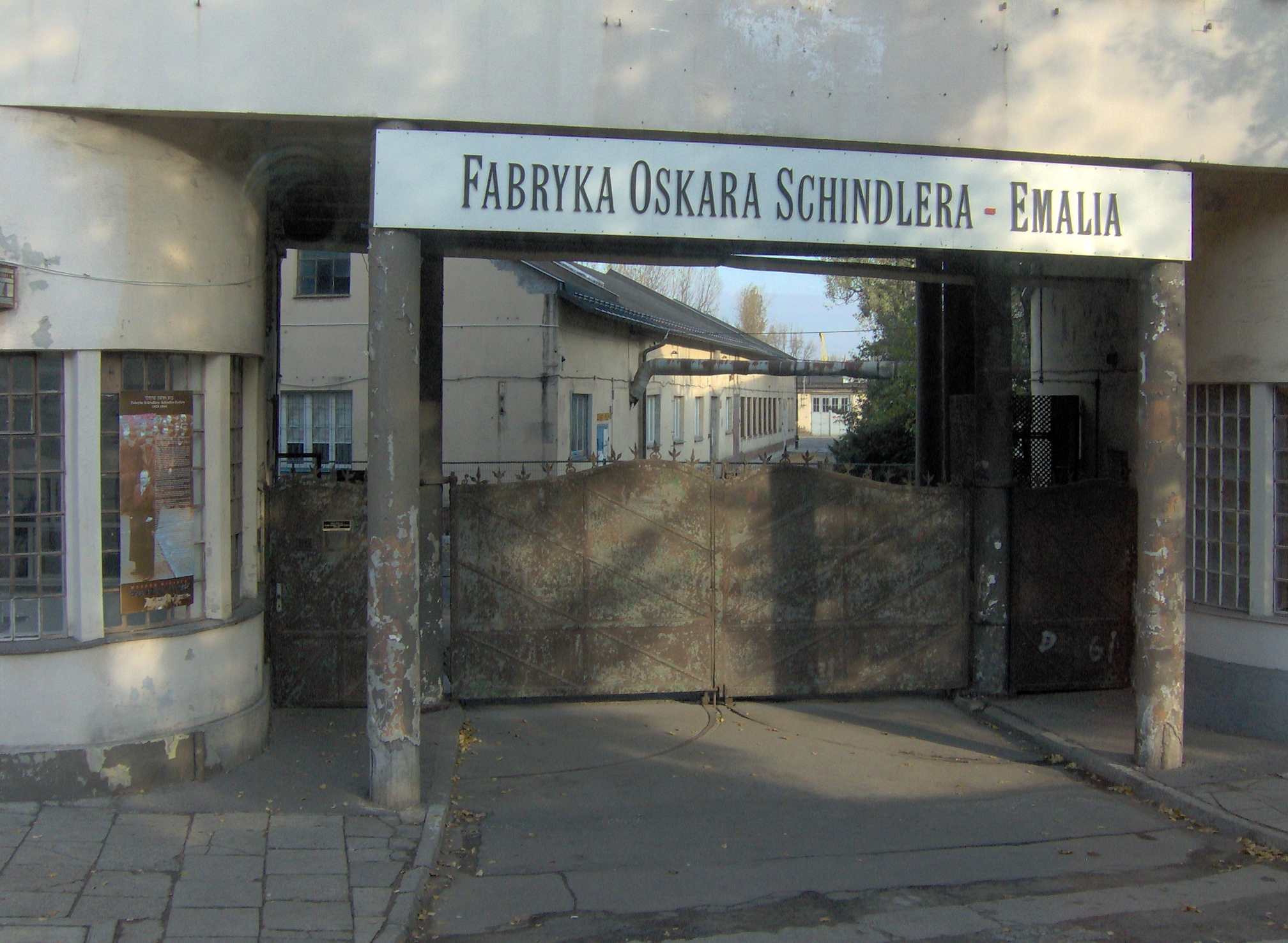 Oskar Schindler's enamel factory in Kraków.